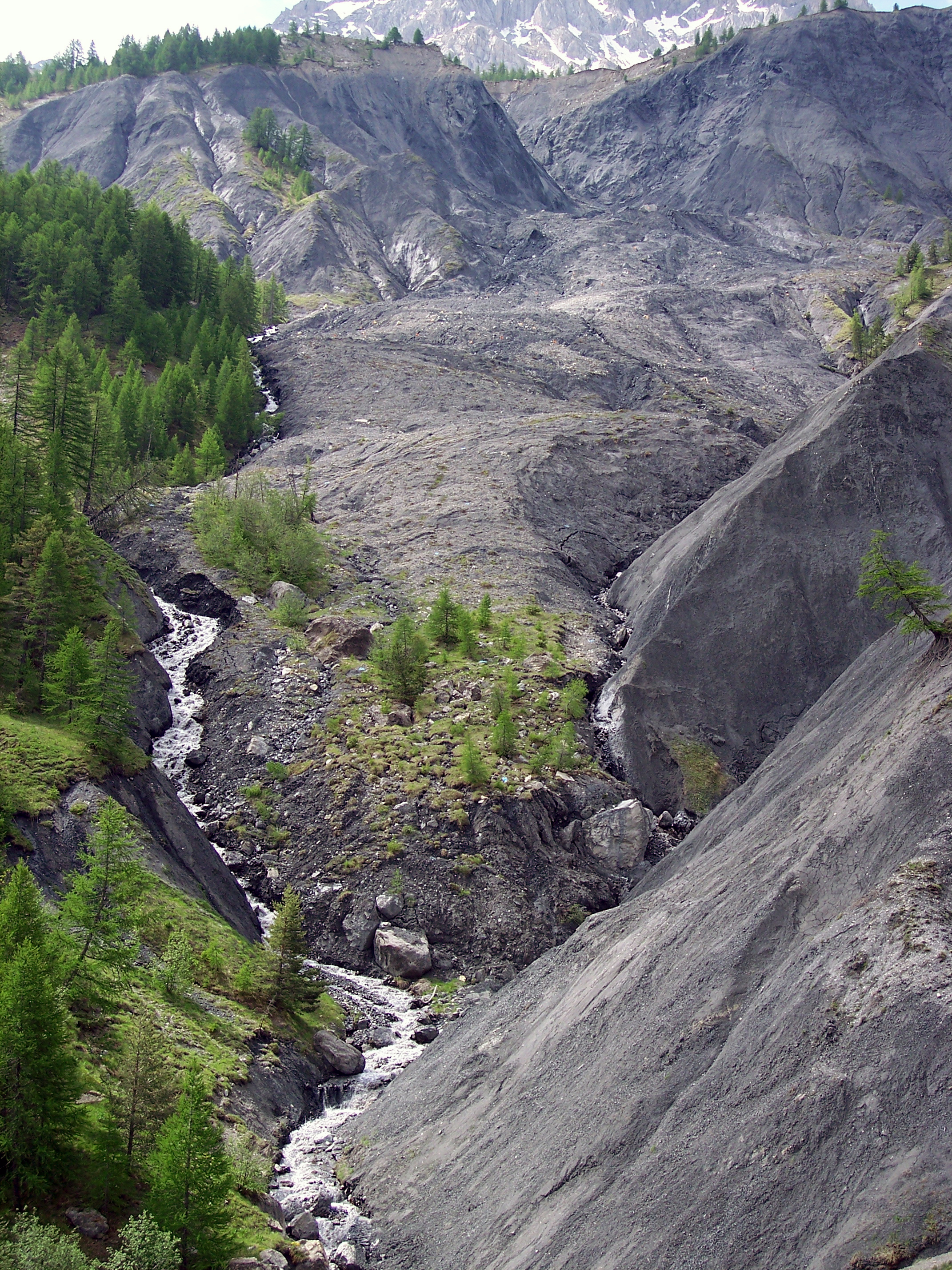 muddy debris avalanche/muddy earthflow Super Sauze, near Barcelonnette, France